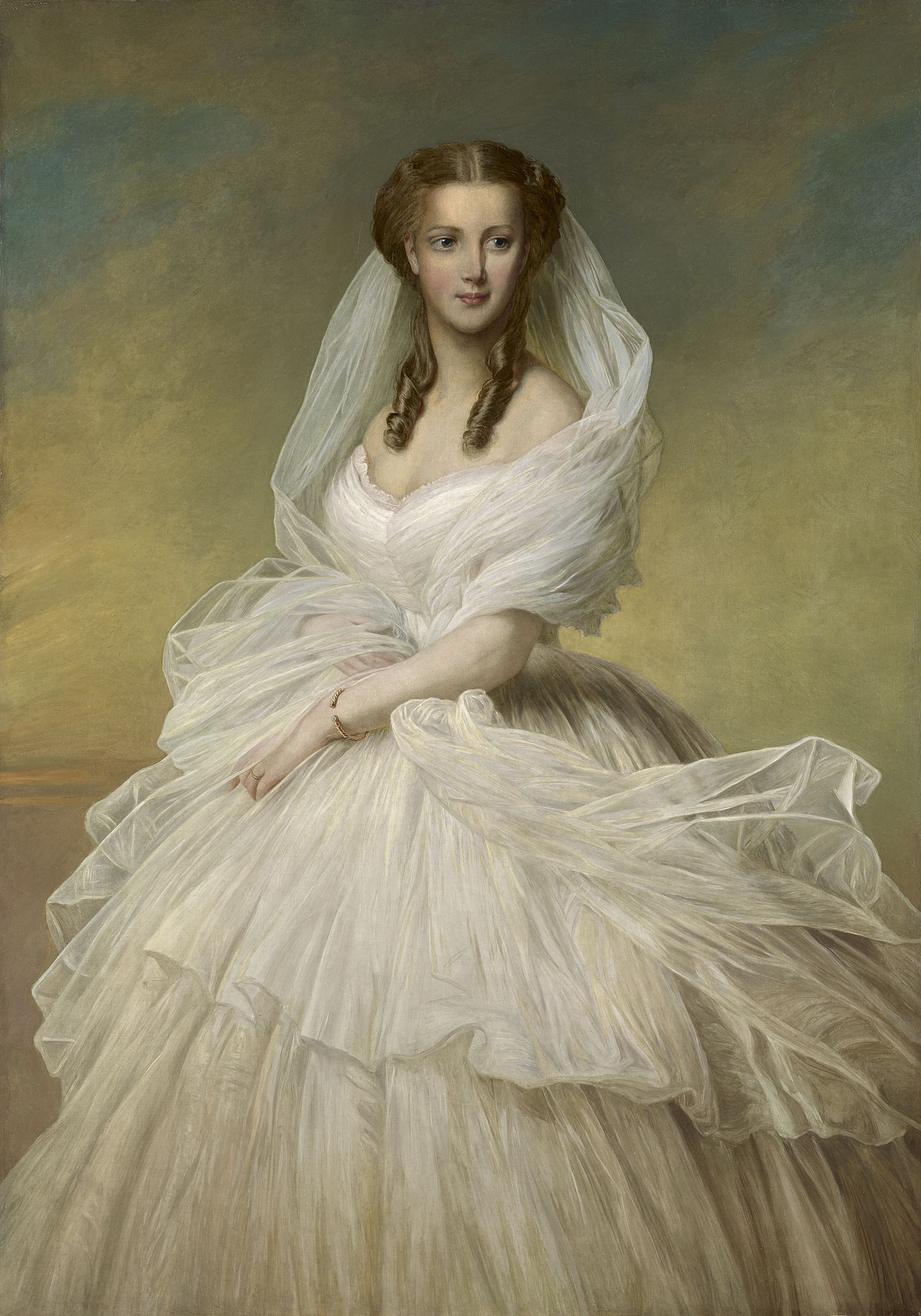 Crown Princess Alexandra of England